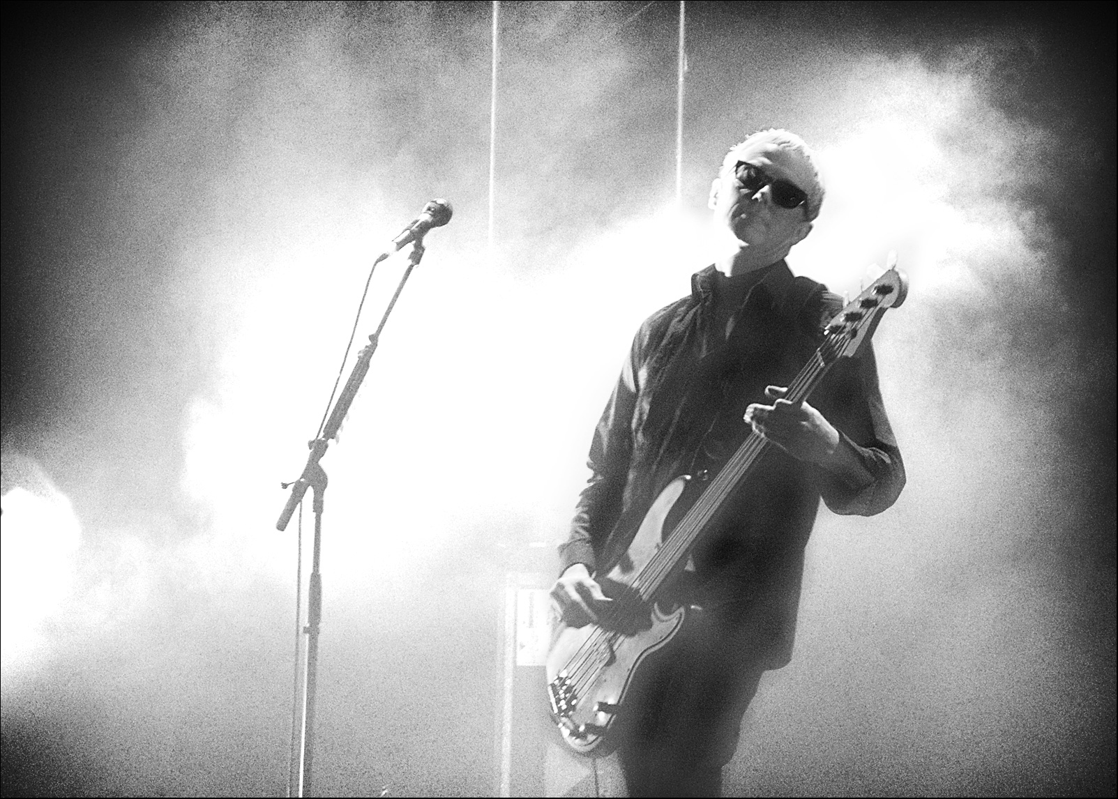 David J live at the brixton academy, london, february 3 2006